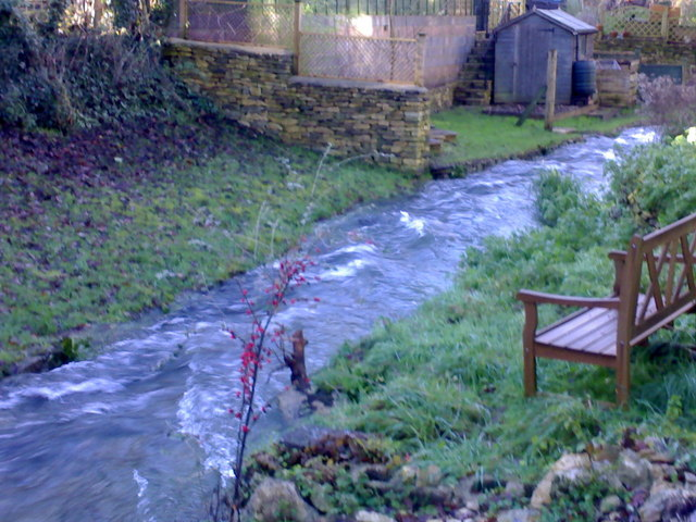 Village stream Avening stream close to bursting its banks as it travels through Sandford Leaze, down towards the church.